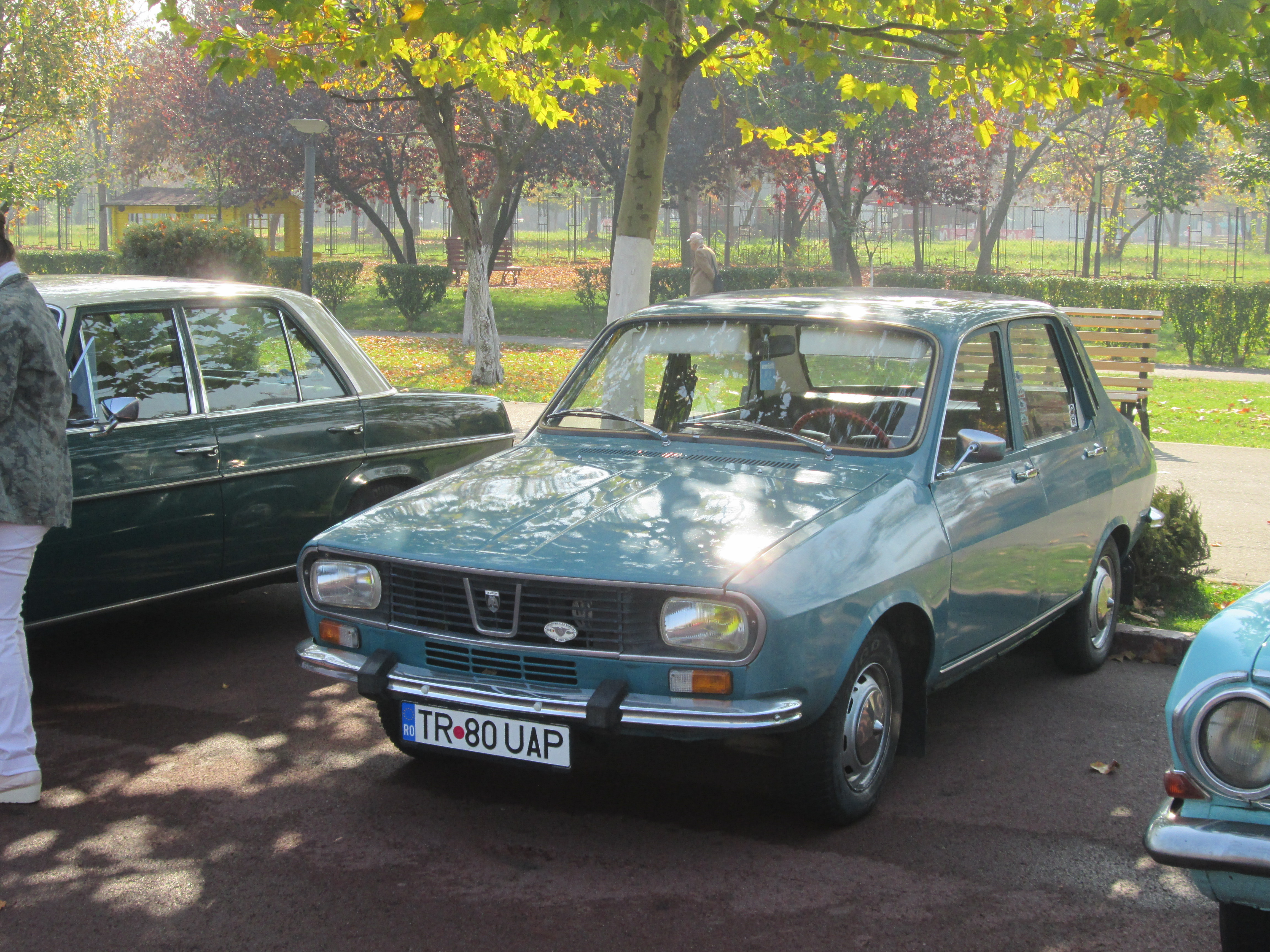 1980 Dacia 1300 at the Autumn Retroparade, Bucharest